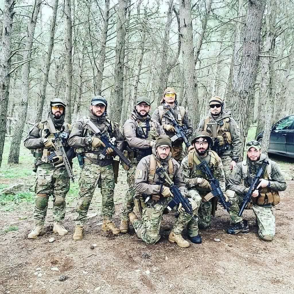 Members of the 2nd company of the Liberation Army(Project "Airsoft Real War)